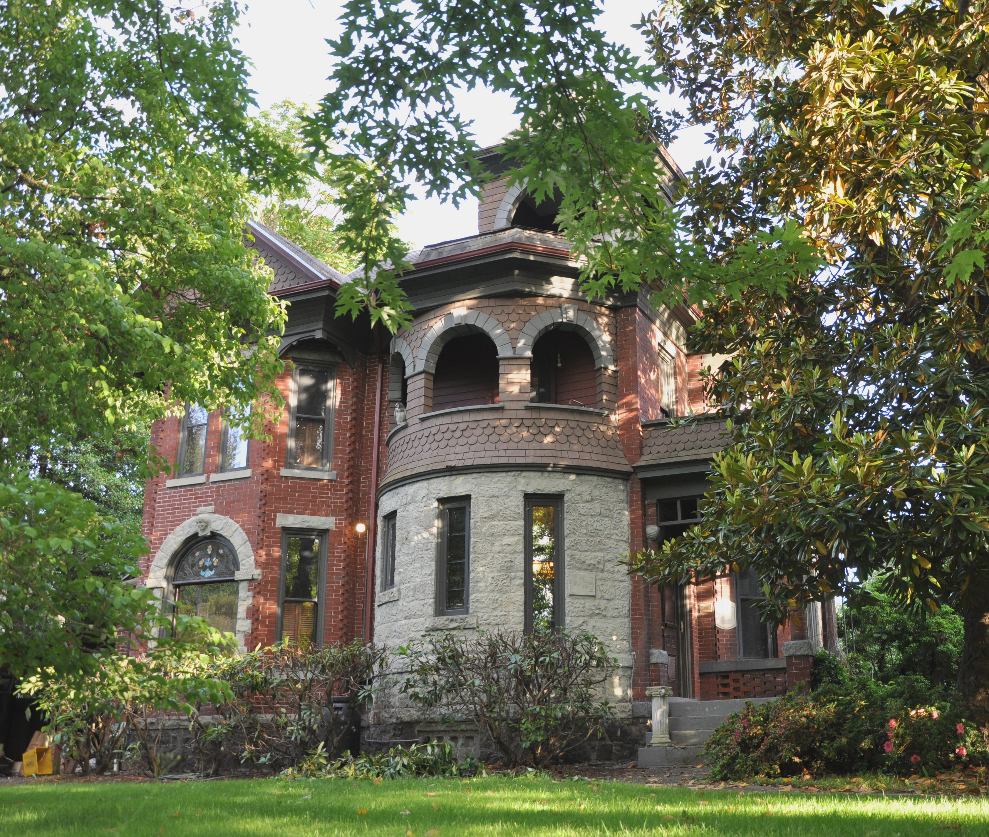 Joseph Kendall House in Portland in the U.S. state of Oregon. The structure is listed on the National Register of Historic Places.